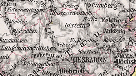 Detail from a map of Hesse.